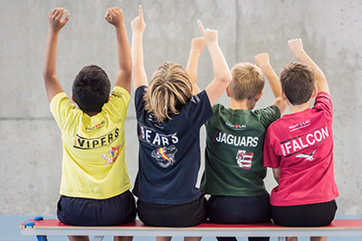 T-shirts worn by the students